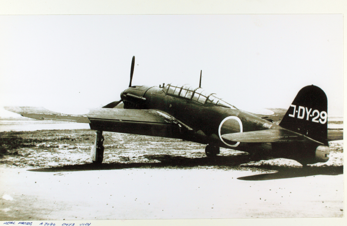 Yokosuka (Kugisho), D4Y-3 Model 33, Suisei (Comet) Judy